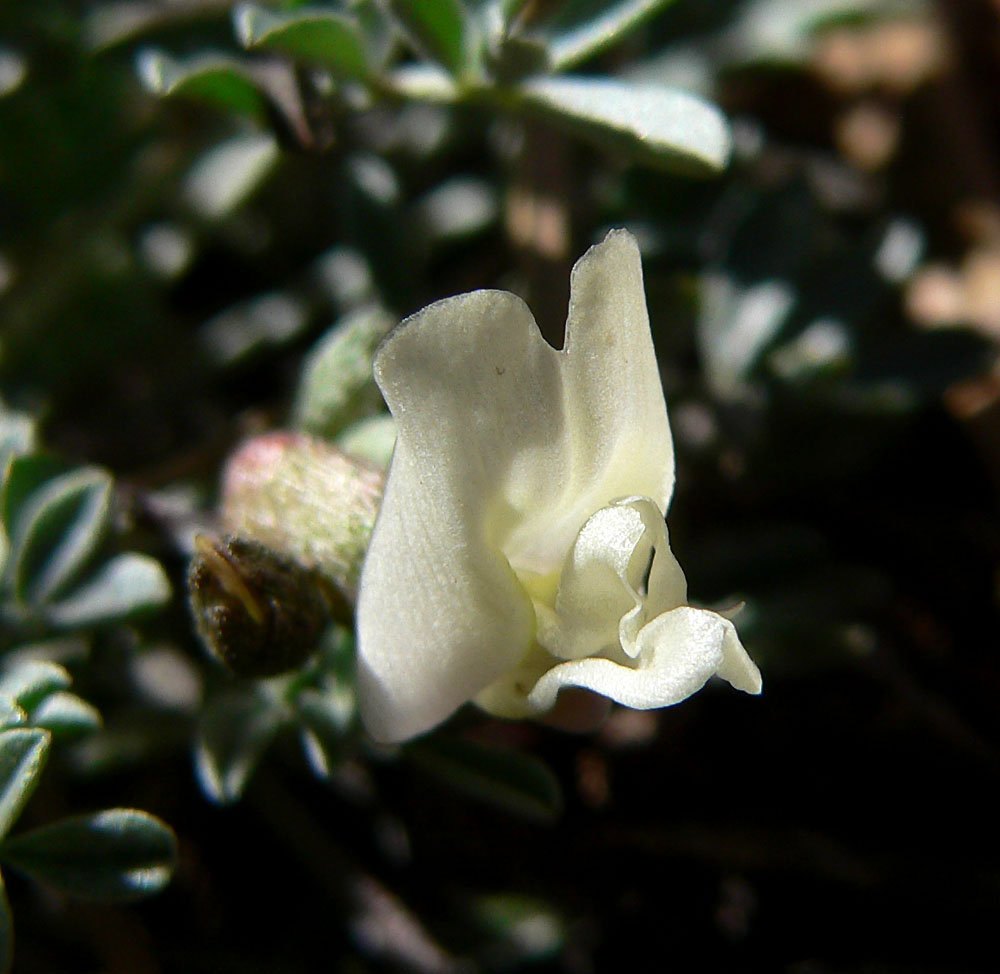 Astragalus calycosus var. calycosus in upper Lee Canyon, Spring Mountains, southern Nevada